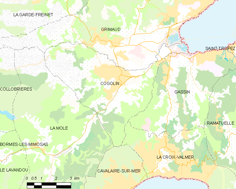 Map of French municipality Cogolin